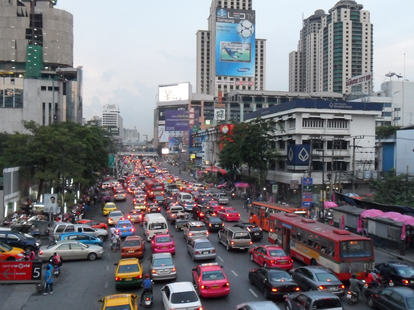 Traffic jam in Bangkok